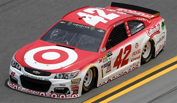 Larson's 2017 NASCAR Monster Energy Cup Series car.